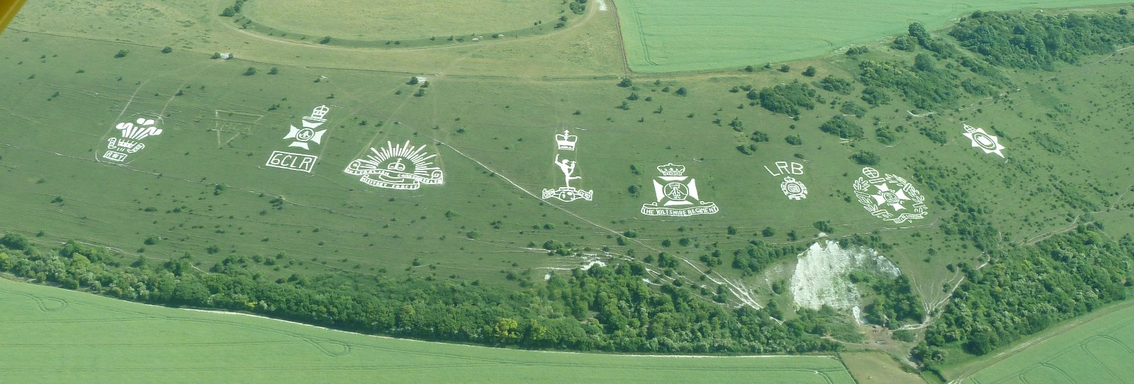 Regimental badges carved into the hillside near Fovant